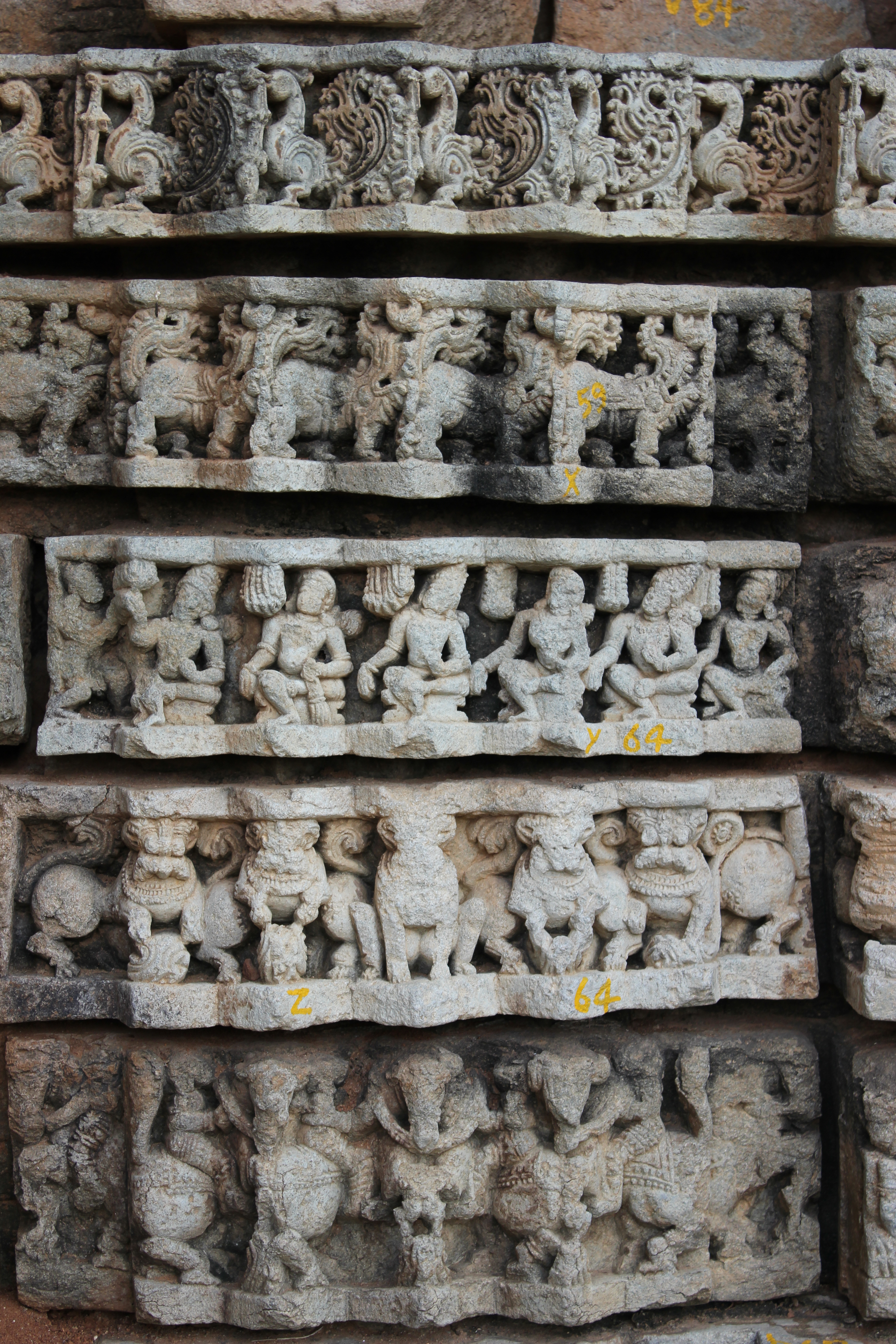 The Mallikarjuna temple is located in Basaralu, Mandya district, Karnataka state, India. The temple was built around 1234 A.D. during the rule of the Hoysala Empire King Vira Narasimha II.